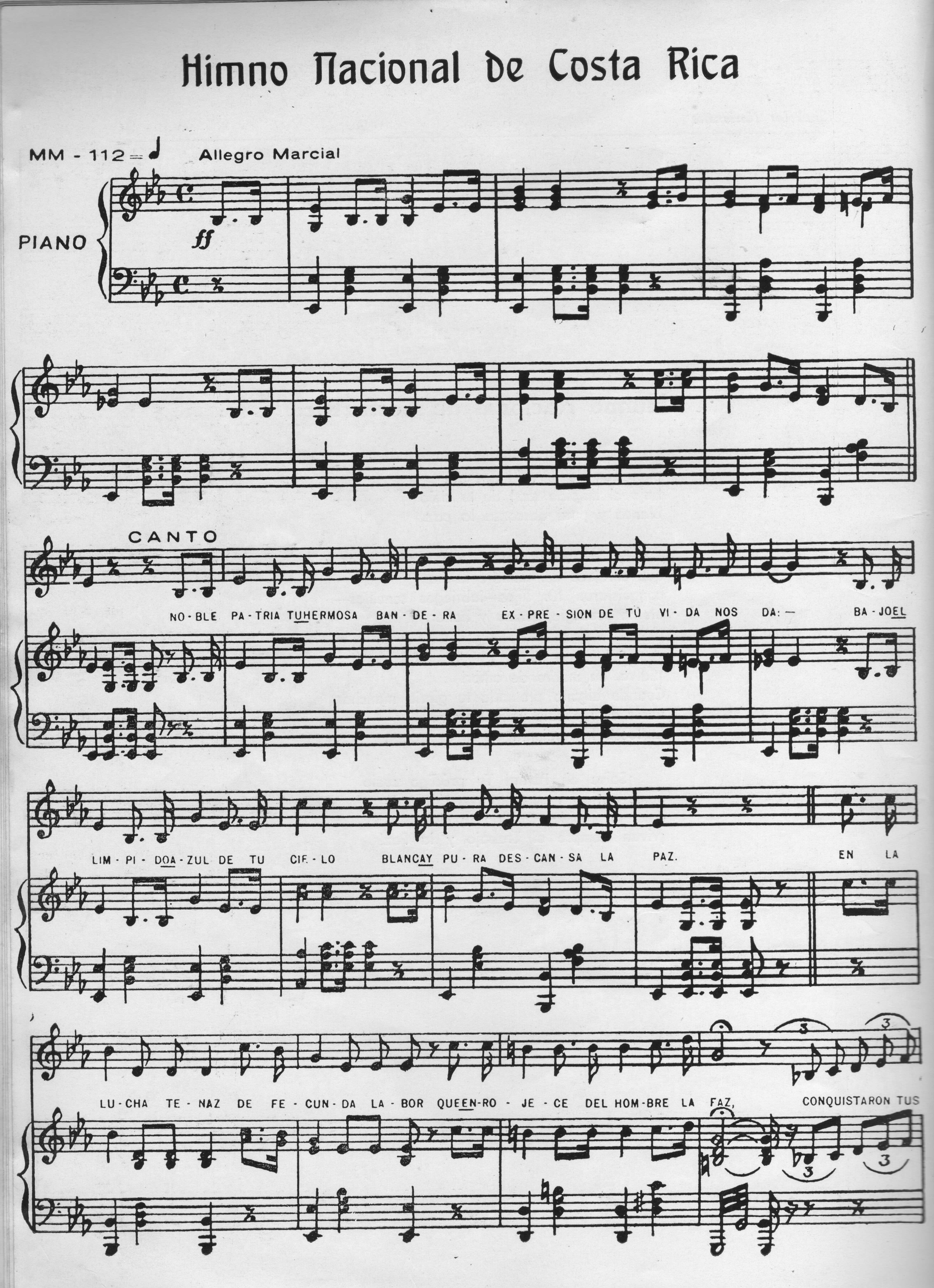 Music of Costa Rica's National Anthem (Part 1)